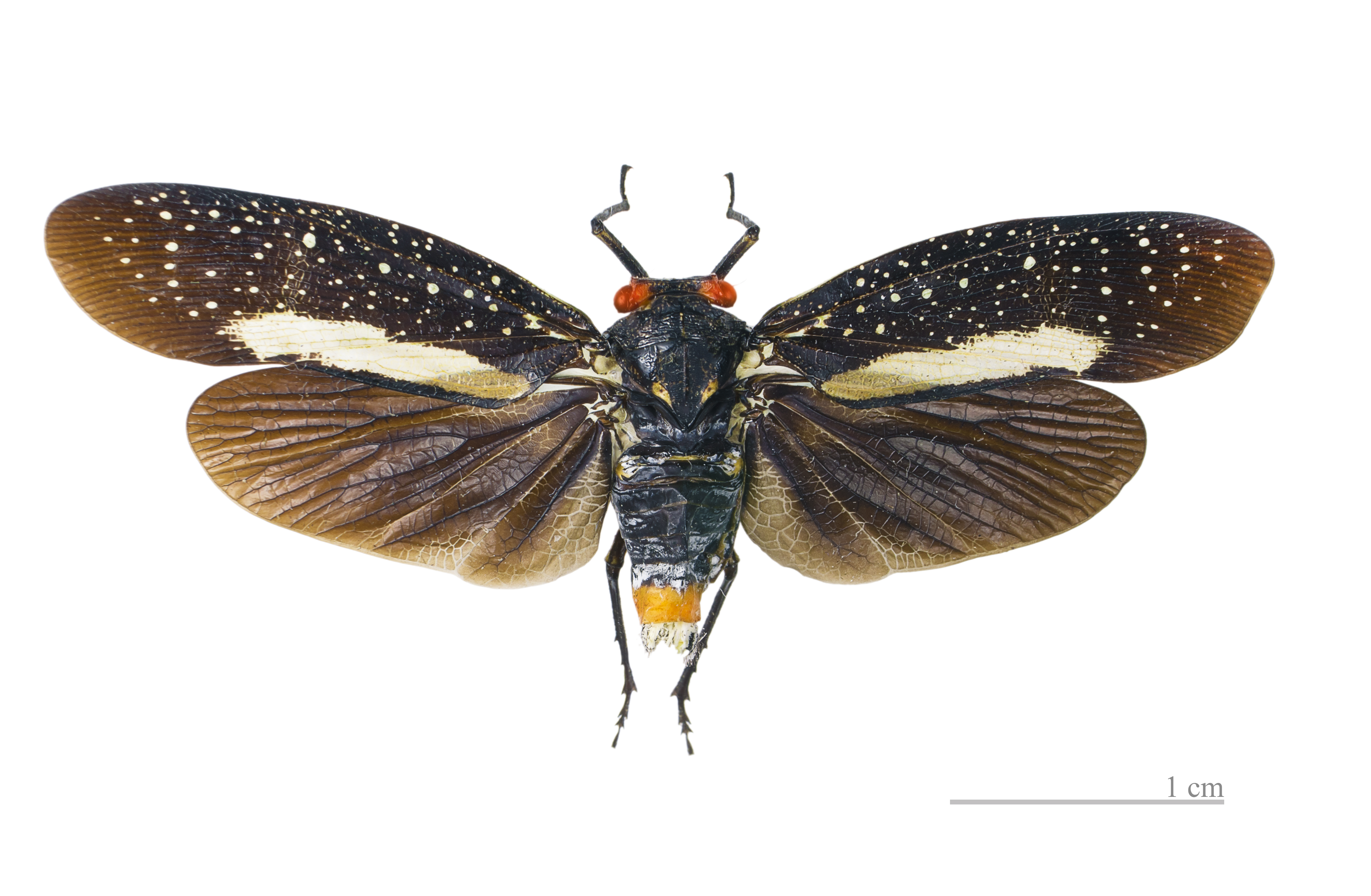 Dorsal side. Locality : Piste Isnard, Saint-Laurent-du-Maroni, French Guiana